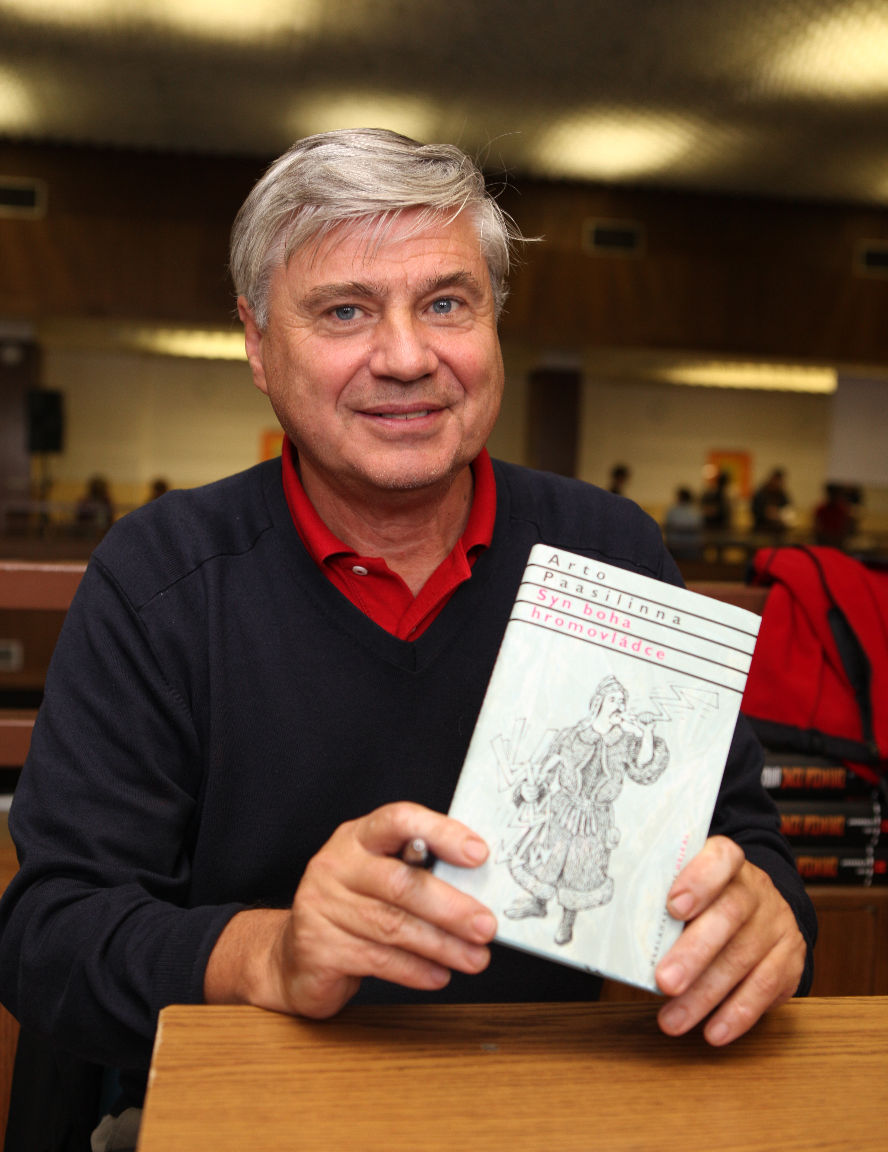 Czech illustrator Jiří Slíva holding a book illustrated by him (Czech edition of a book by Finnish writer Arto Paasilinna